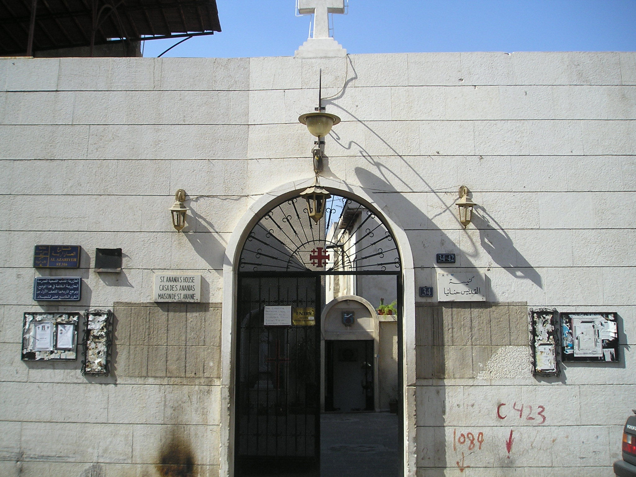 Damascus, Syria - outside the Ananias House